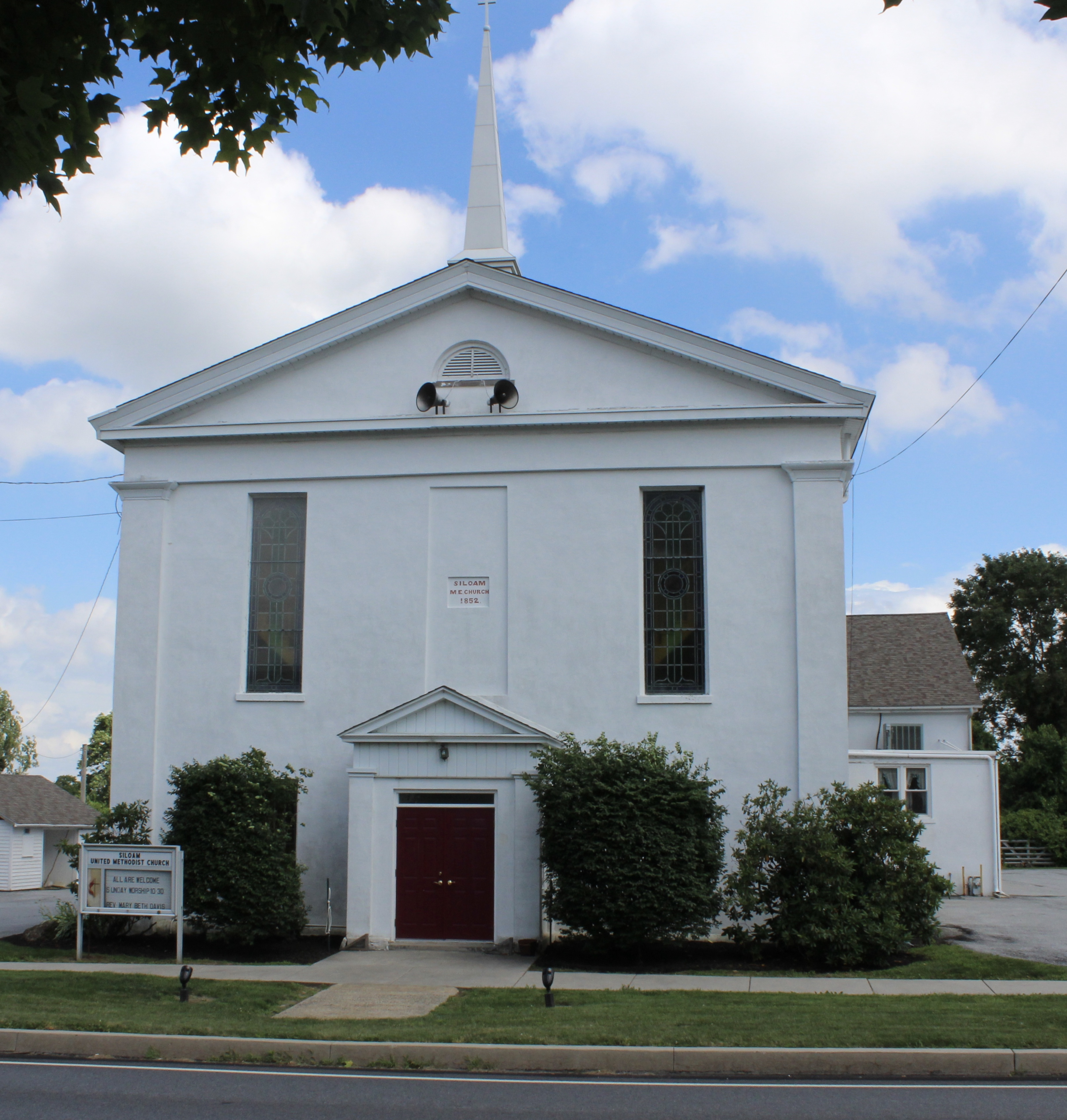 A picture of Siloam United Methodist Church from across Foulk Road. My daughter Chenai Kaminski took the photo.